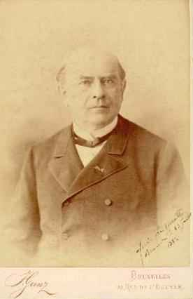 The portrait of German componist and teacher Hubert Ferdinand Kufferath (1818—1896)